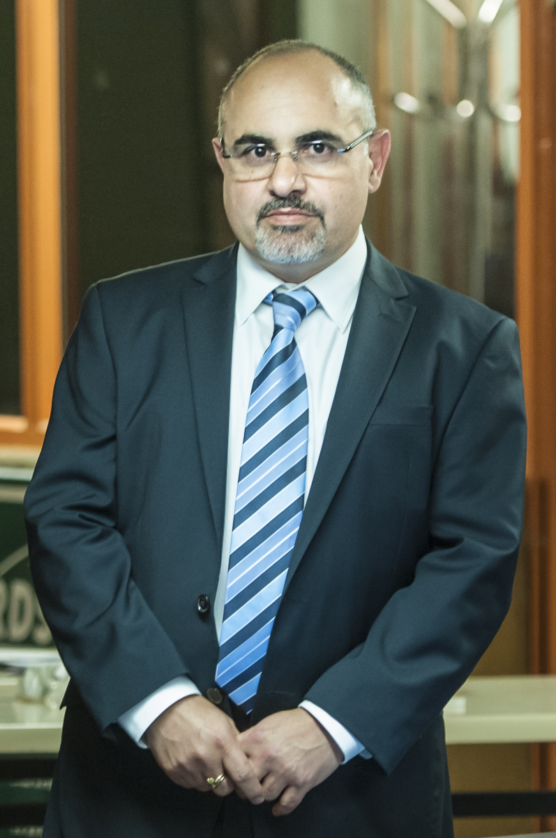 Jean-Paul Sinanian